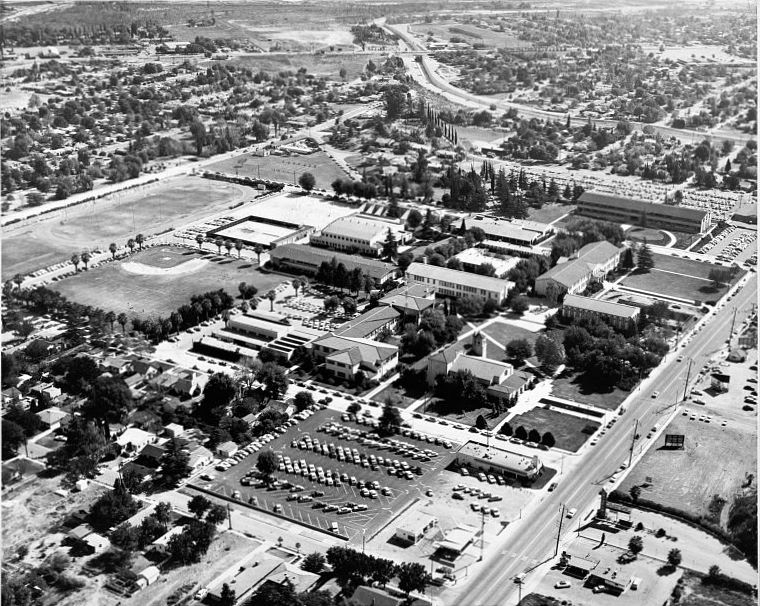 San Bernardino Valley College, circa 1933. Cropped from source file.